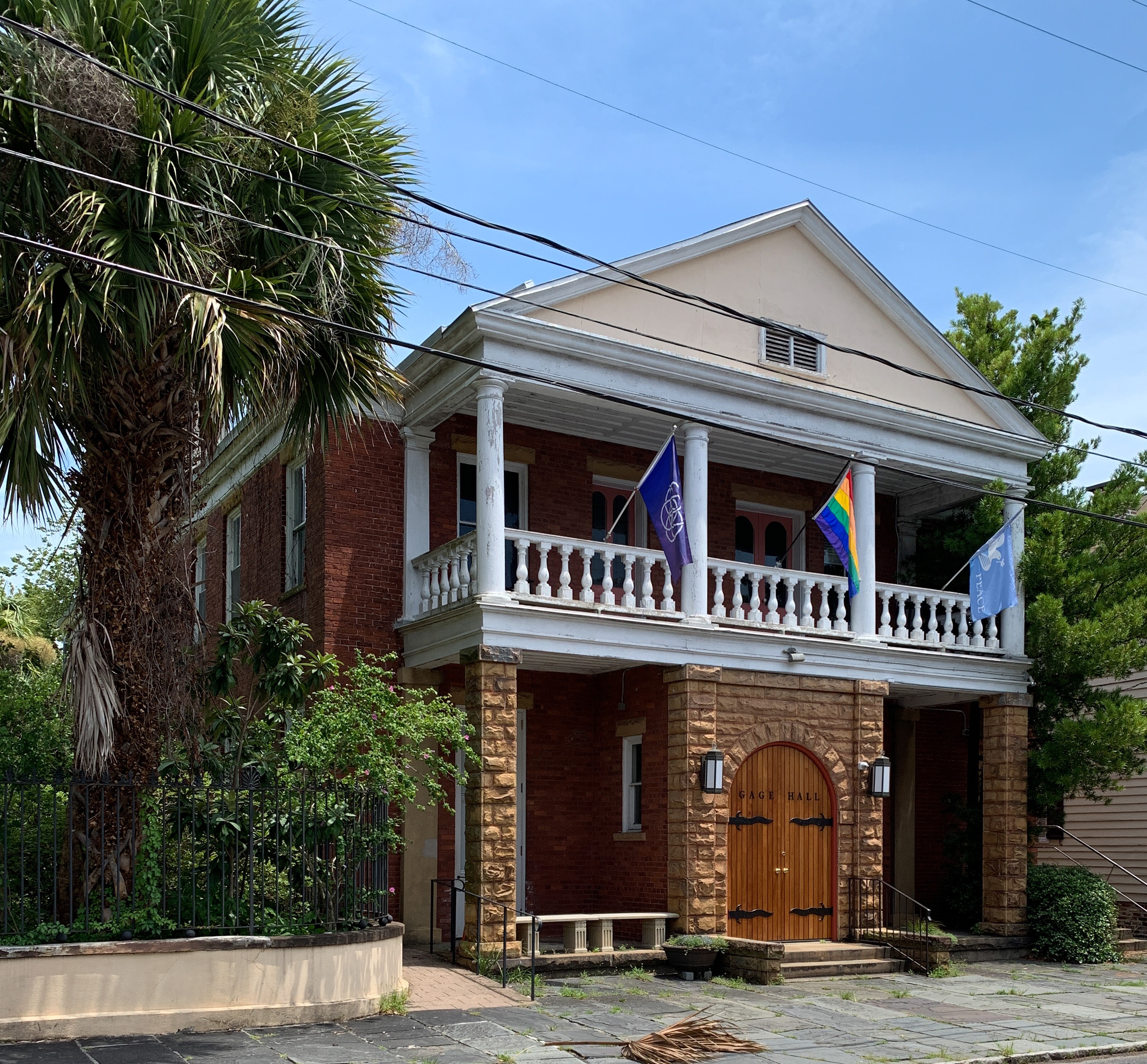 Gage Hall, 4 Archdale Street, Charleston, South Carolina